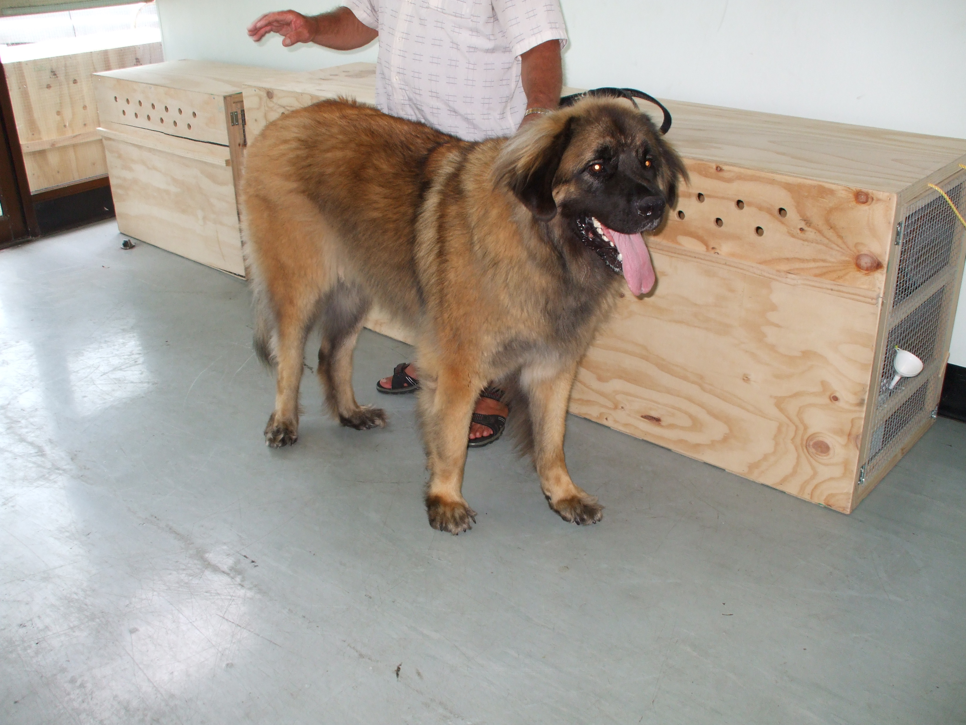 Dogtainers Pet Transport Dog Cage Sizing Travel Crate Bernese Mountain Dog.Jpg